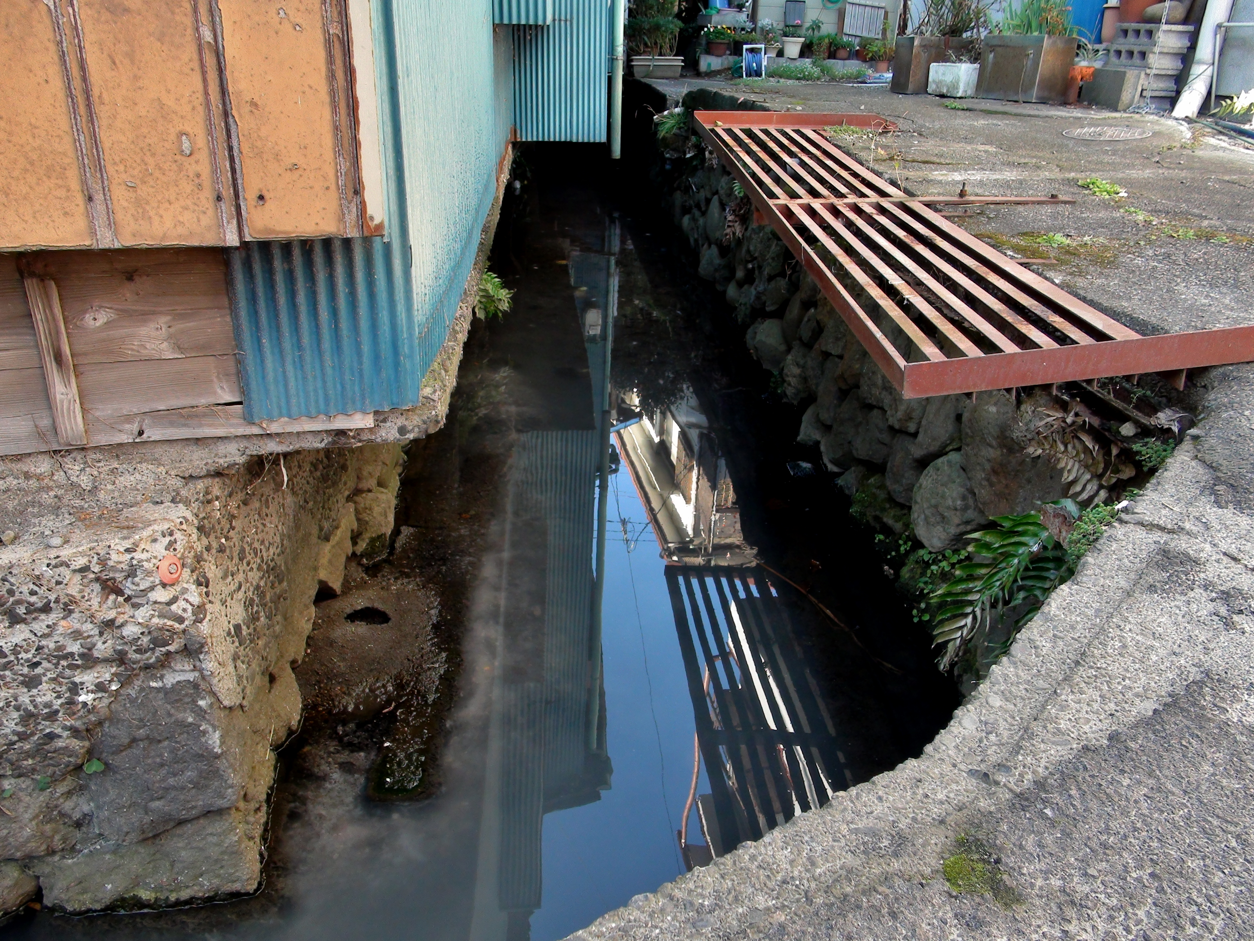 Tojin River Ito city